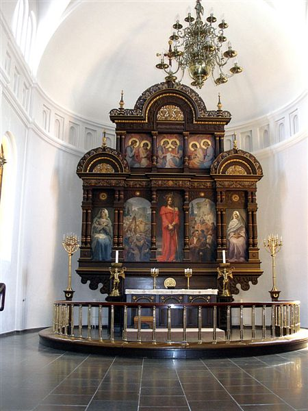 Vor Frue Church (Church of our Lady) in Aalborg Kommune, Denmark. Arch.Johannes Emil Gnudtzmann. Altar by Hermann Baagøe Storck and Frans Schwartz